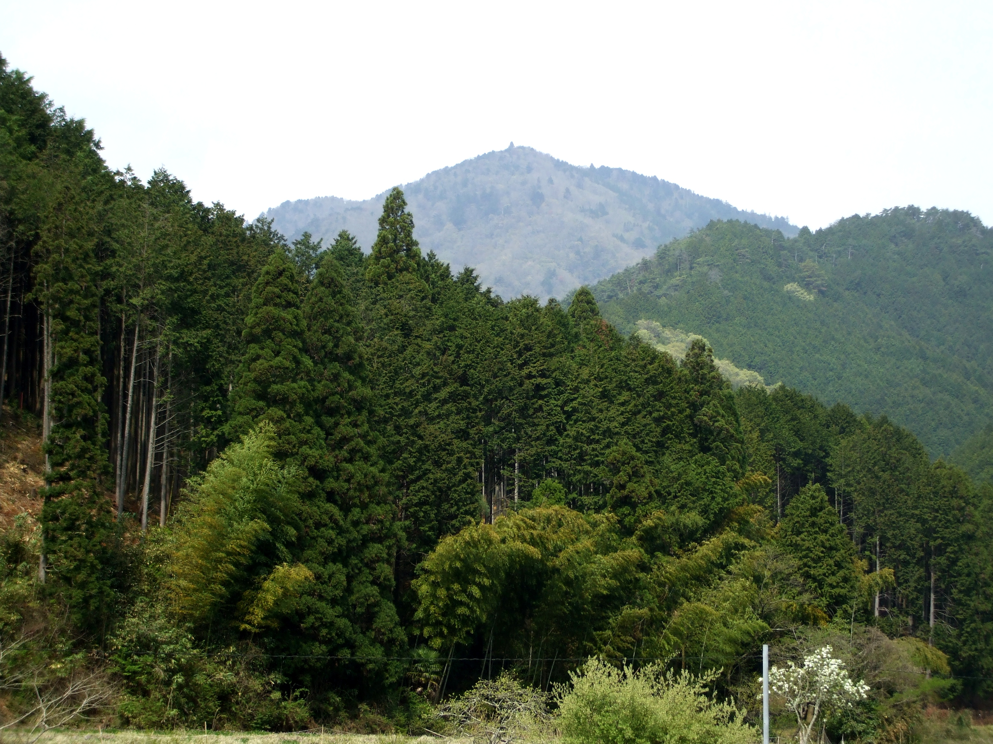 Mount Kasagata's northeast ridge seen from ESE in Hyogo, Honshu, Japan. Taken from Ohya, Taka Town. This peak is not summit.